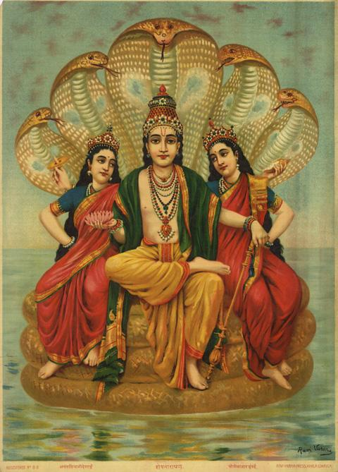 Narayana (Vishnu) and wifes, with Shesha.